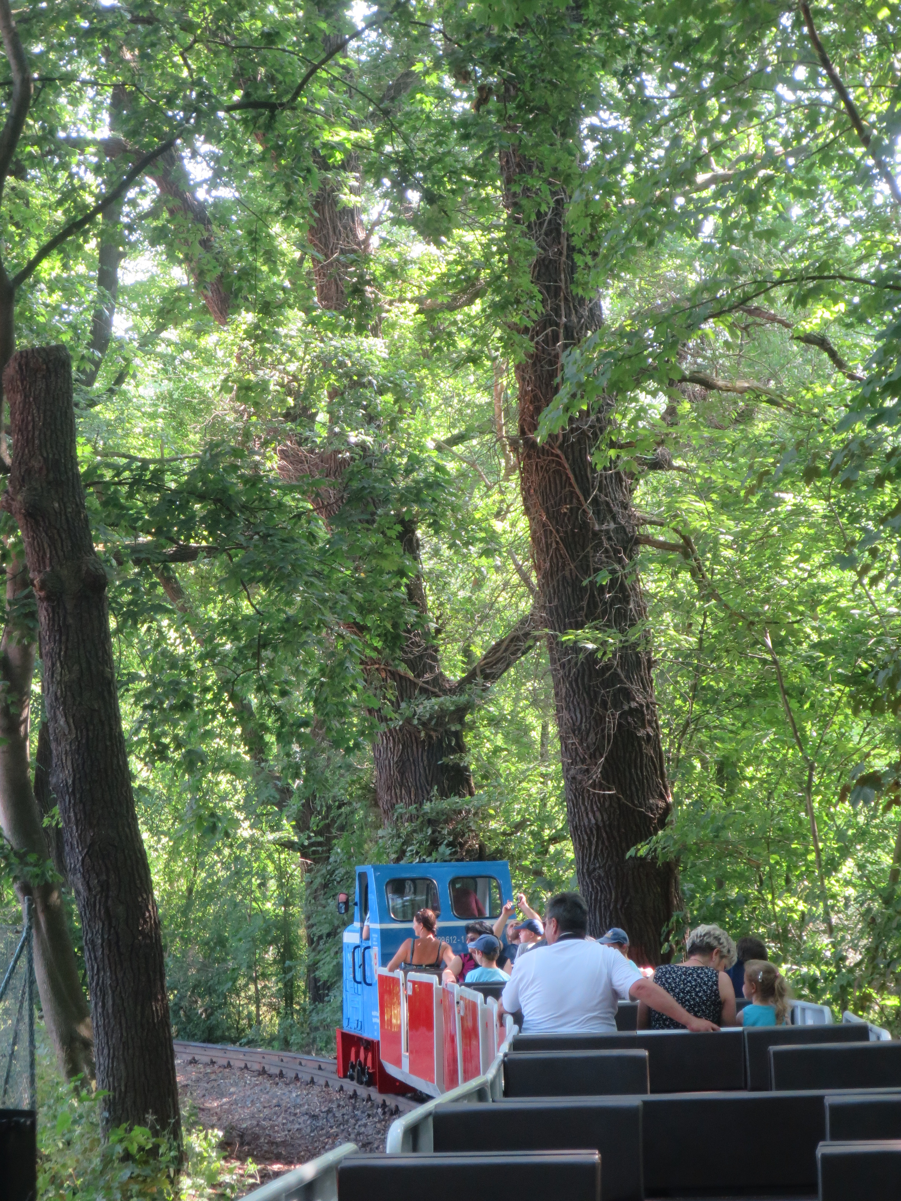 On the line